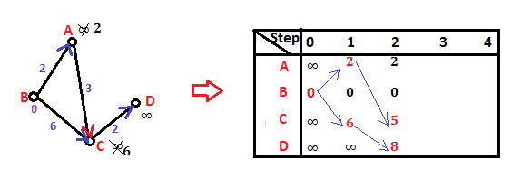 Bước 2